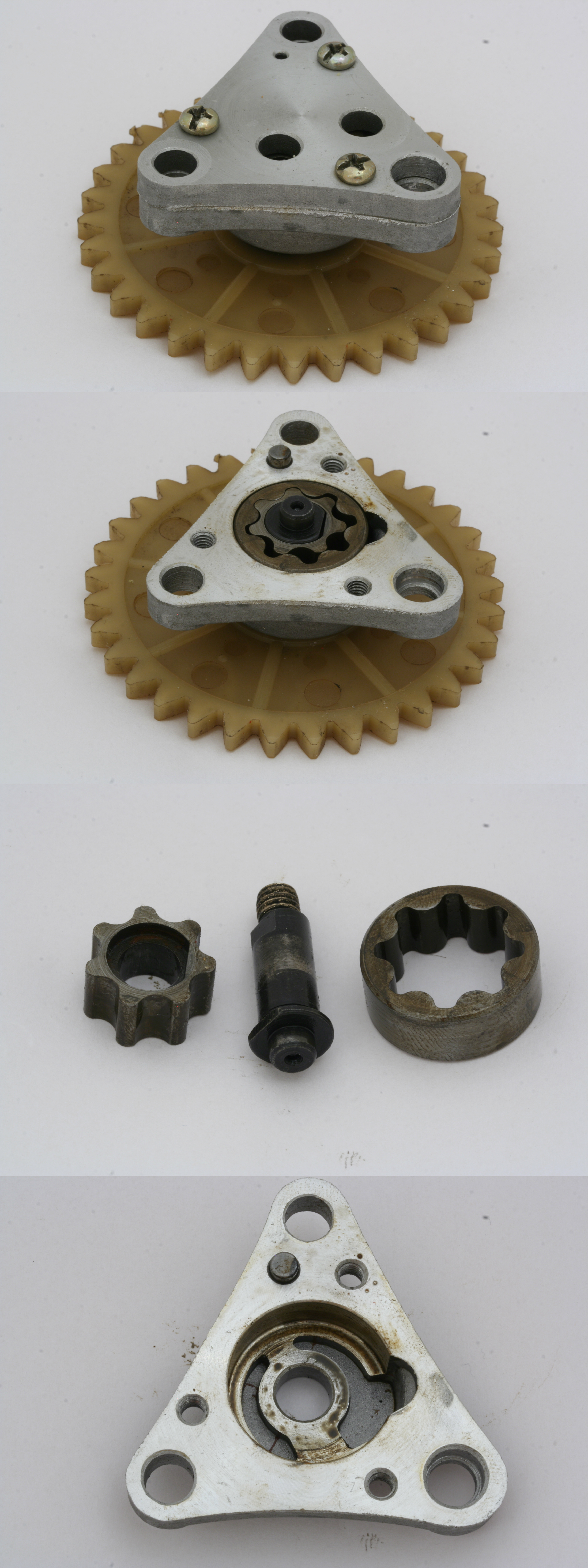 Oil pump (gear type) from 139QMB scooter engine.